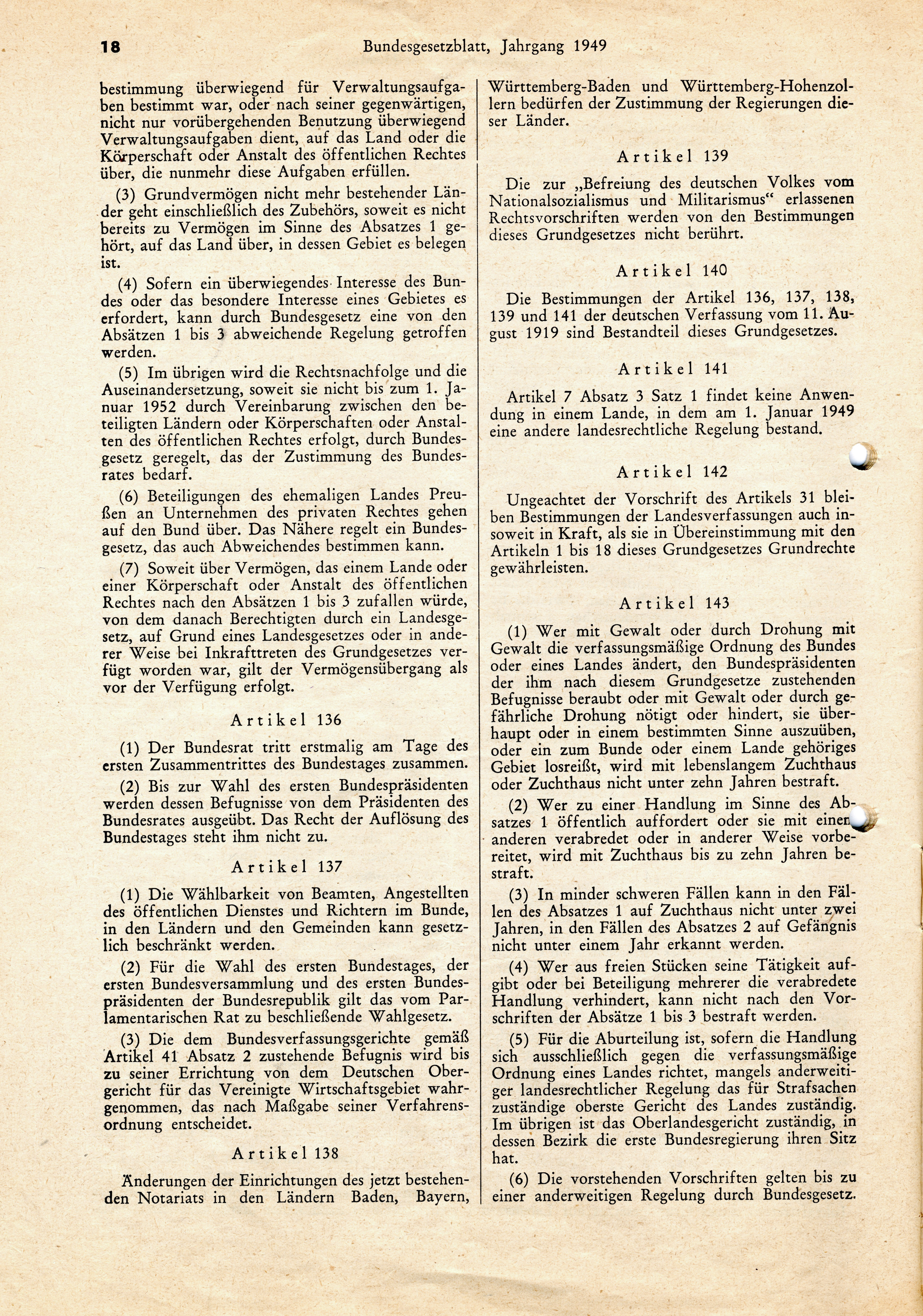 First edition of Bundesgesetzblatt I from 23.05.1949 with Basic Law for The Federal Republic of Germany 1949